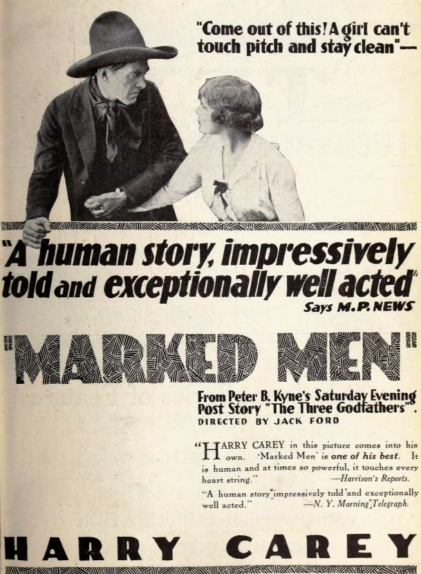 Advertisement for the American western film Marked Men (1919) with Harry Carey and Winifred Westover, on page 3 of the March 6, 1920 Exhibitors Herald.